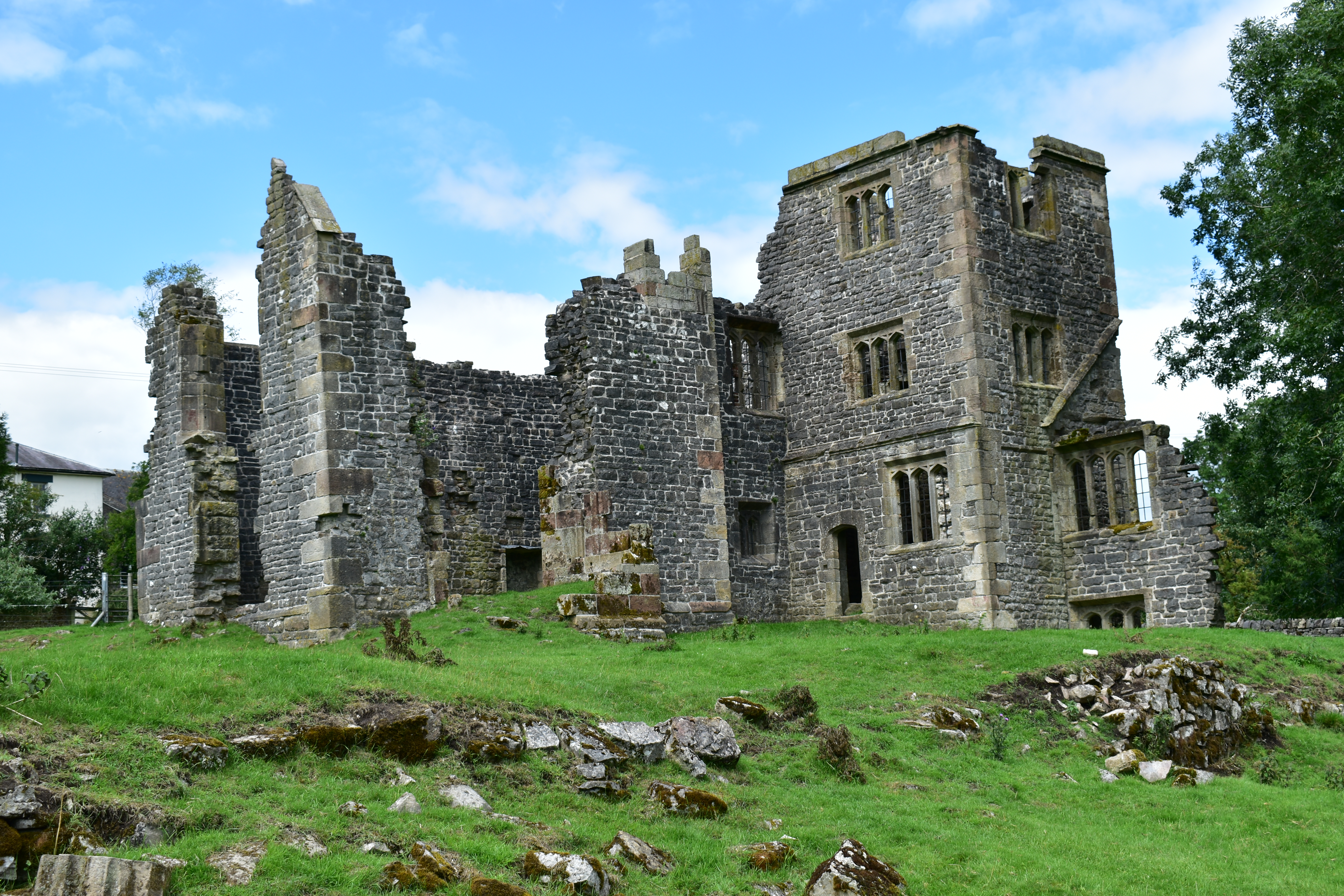 View of Throwley Old Hall from the entrance to the grounds